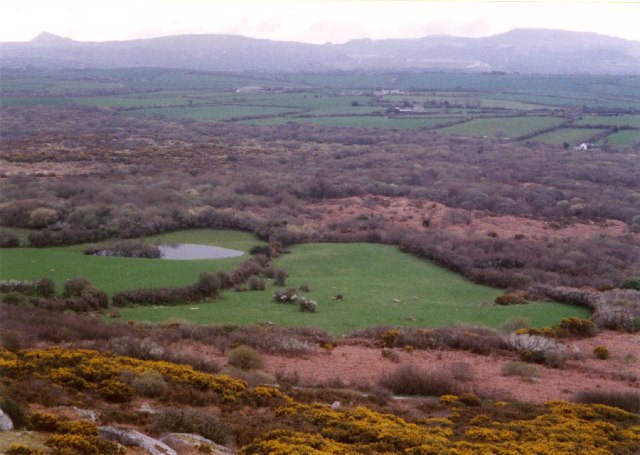 Breney Common, Luxulyan. This area of scrubland, beyond the green fields, is a nature reserve. The fields were part of the common in the 1940s. Taken from Helman Tor.